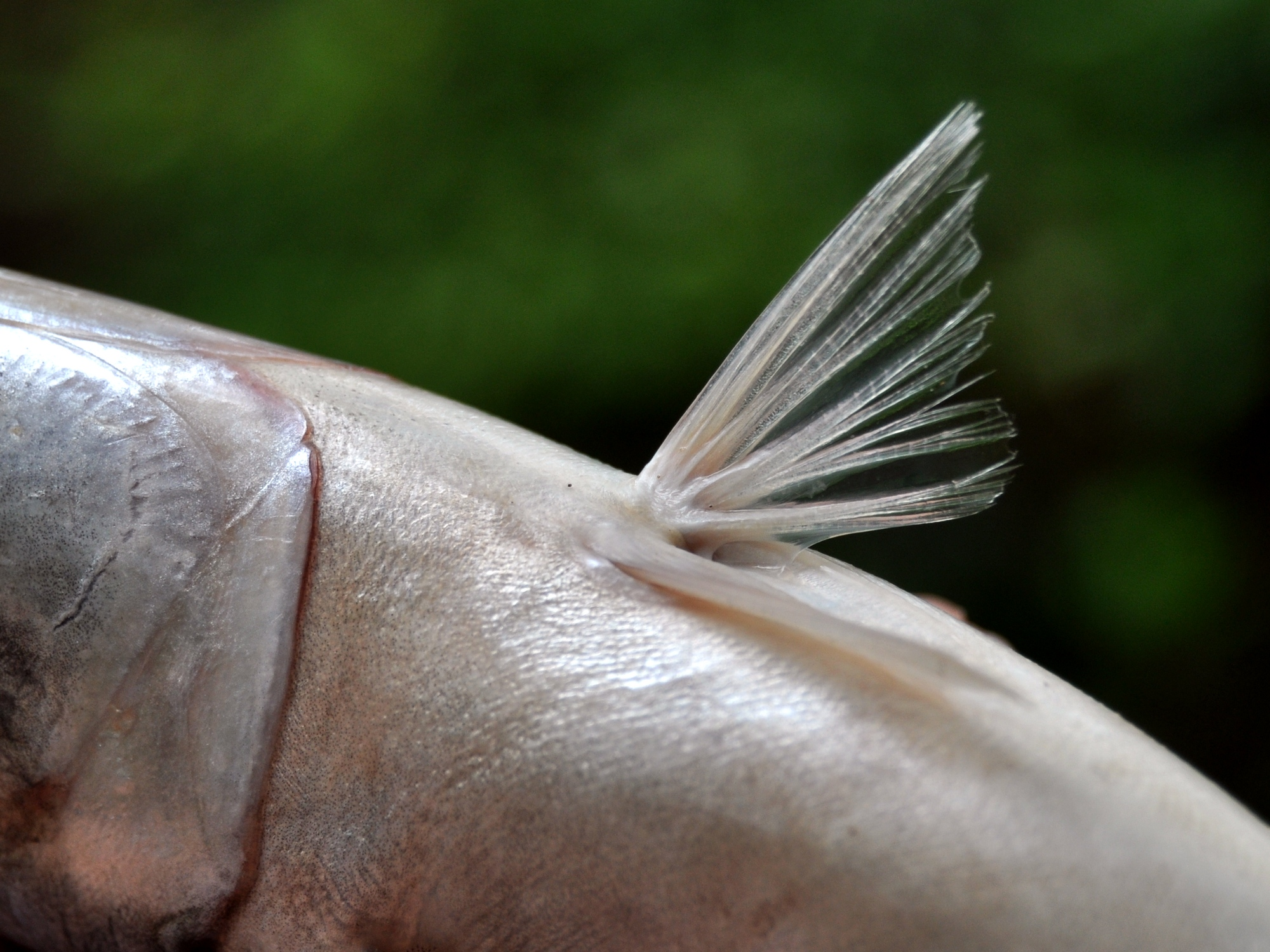 Pacific Chub Mackerel, Scomber japonicus, 225mm FL. From local market in Bogor, West Java, Indonesia. Pelvic fins.